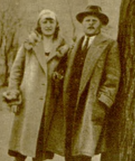 Gheorghe A. Lăzăreanu-Lăzurică and wife in Kowno (Kaunas), as Romanian delegates to the International Romani Congress.